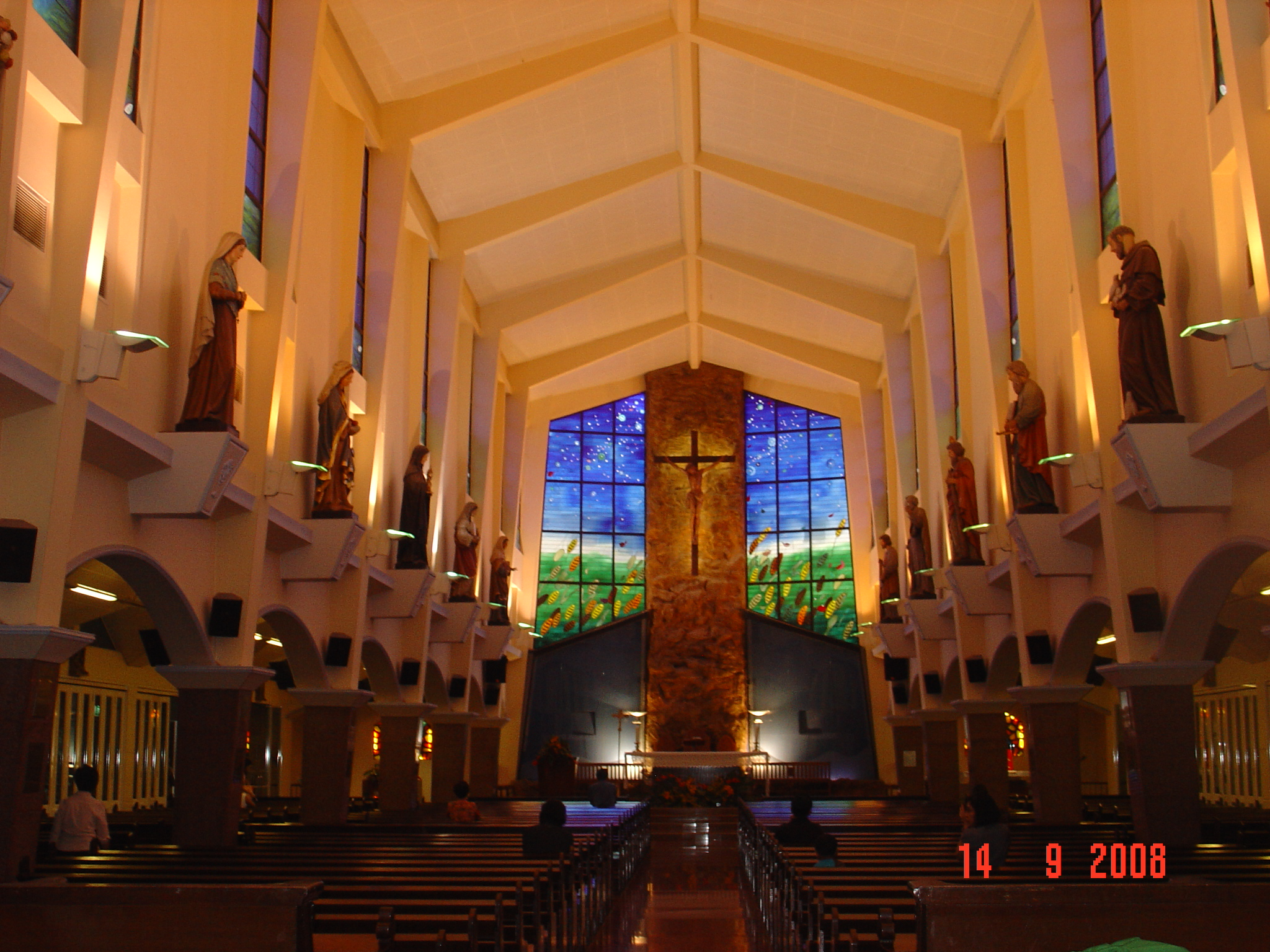 Church of Saint Francis Xavier Singapore Interior